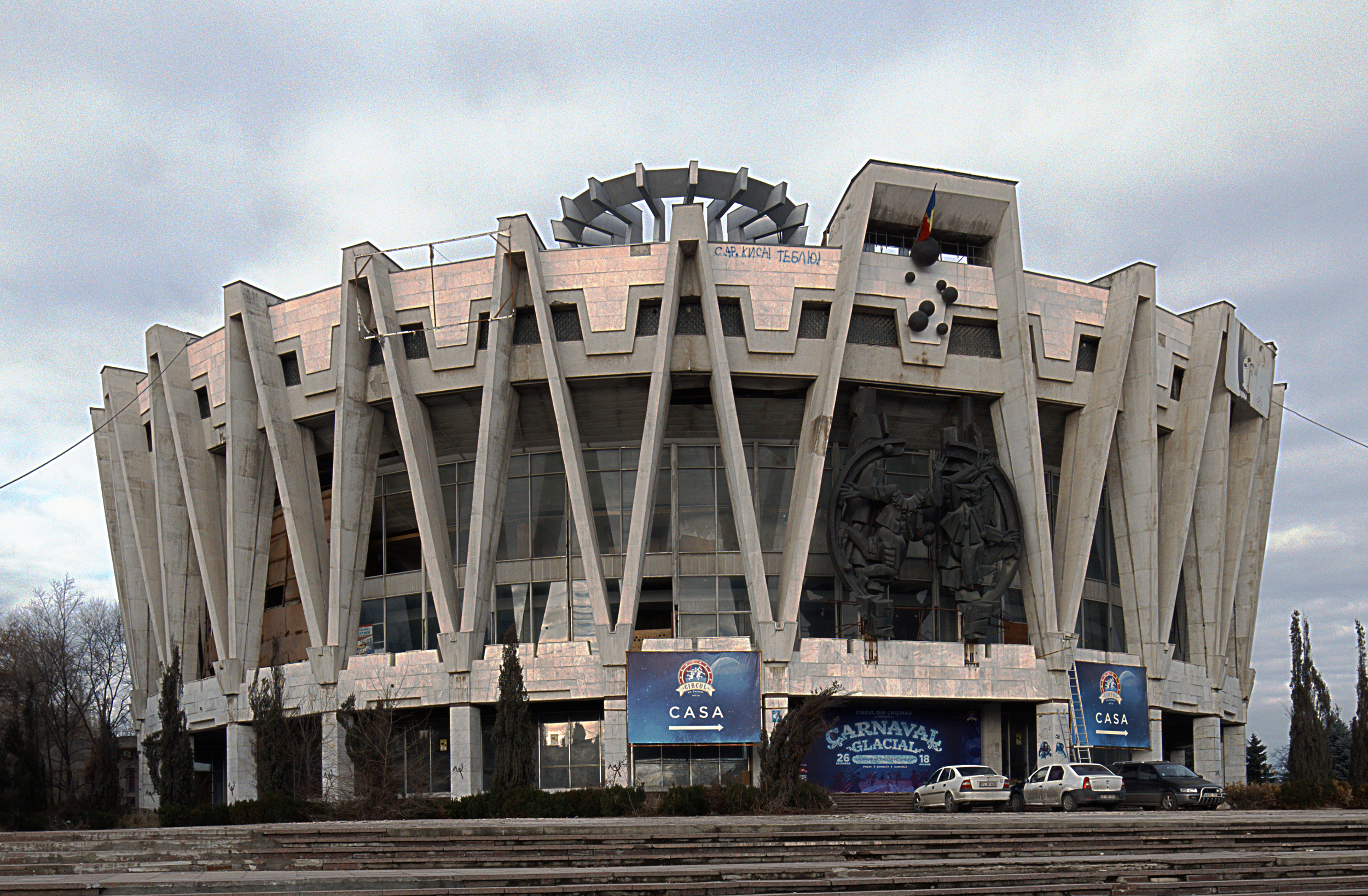 Chisineu Circus building. Moldova late 2014.